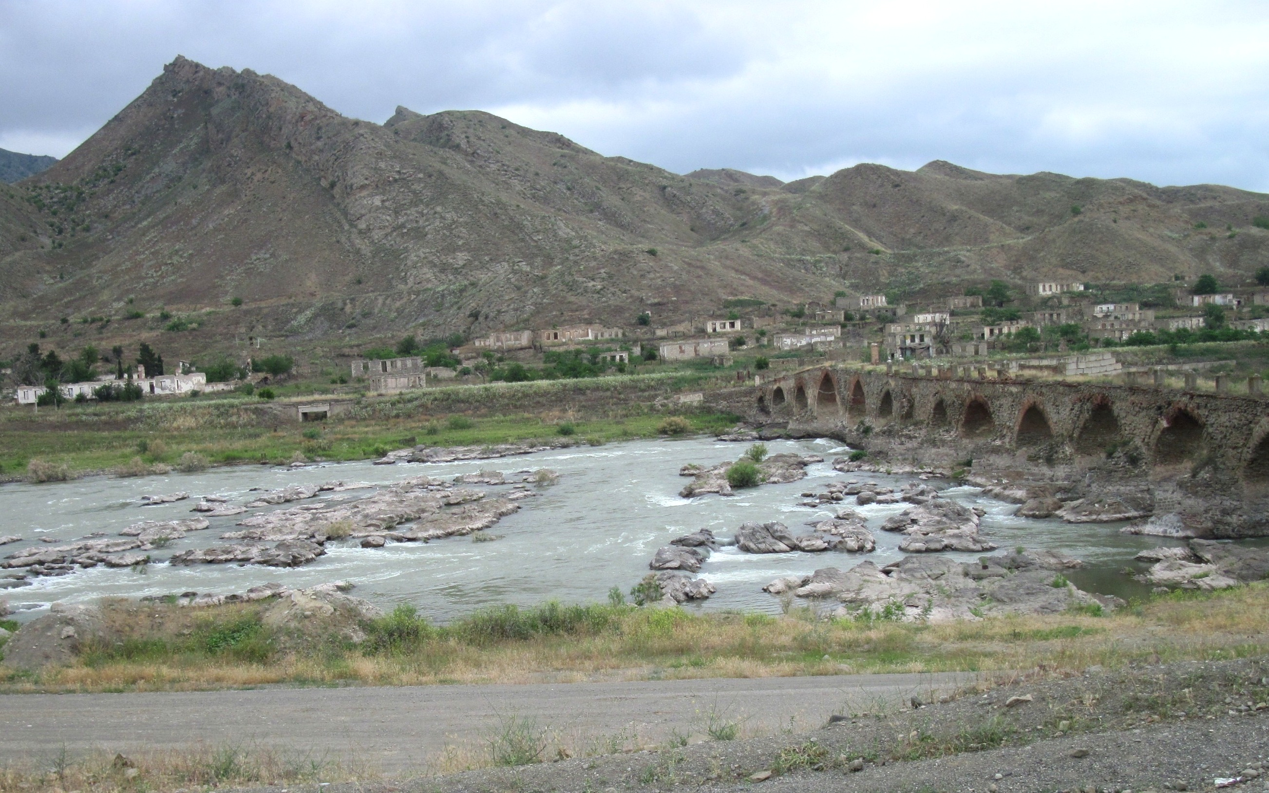 Khudafarin bridge with 15 archs, Khomarluo, Khoda Afarin County, Arasbaran